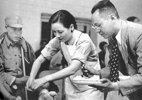 The image of Soong May-ling gave bandage to injured Chinese soldier was published in then Chinese newspaper, as it was written in